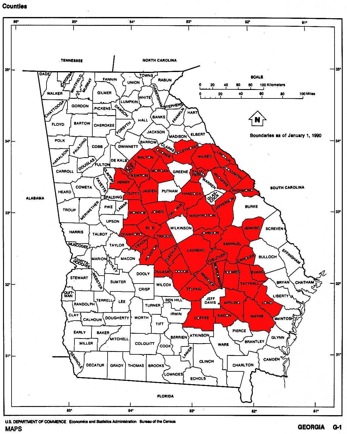 Edited U.S. Census Bureau data in w: .